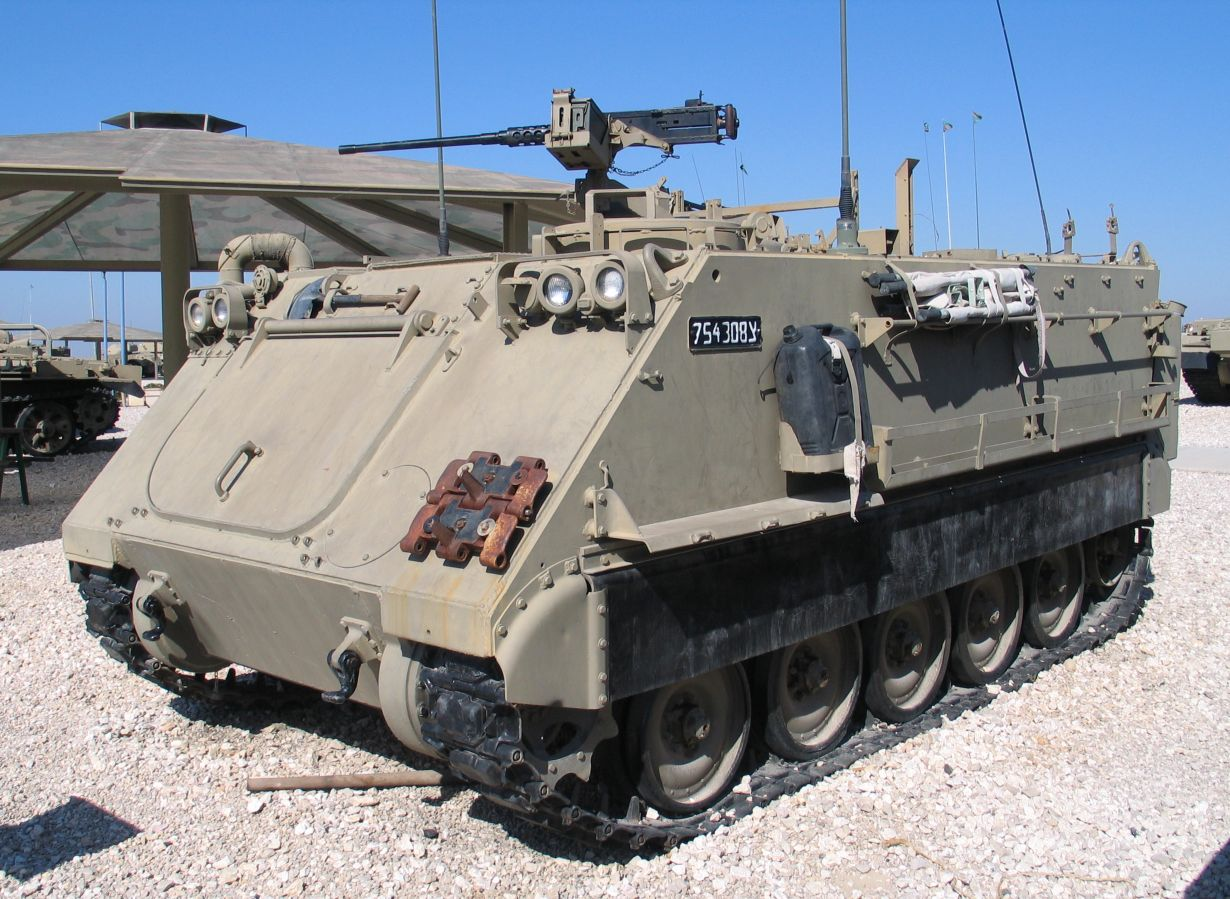 M113A1 APC in Yad la-Shiryon Museum, Israel.